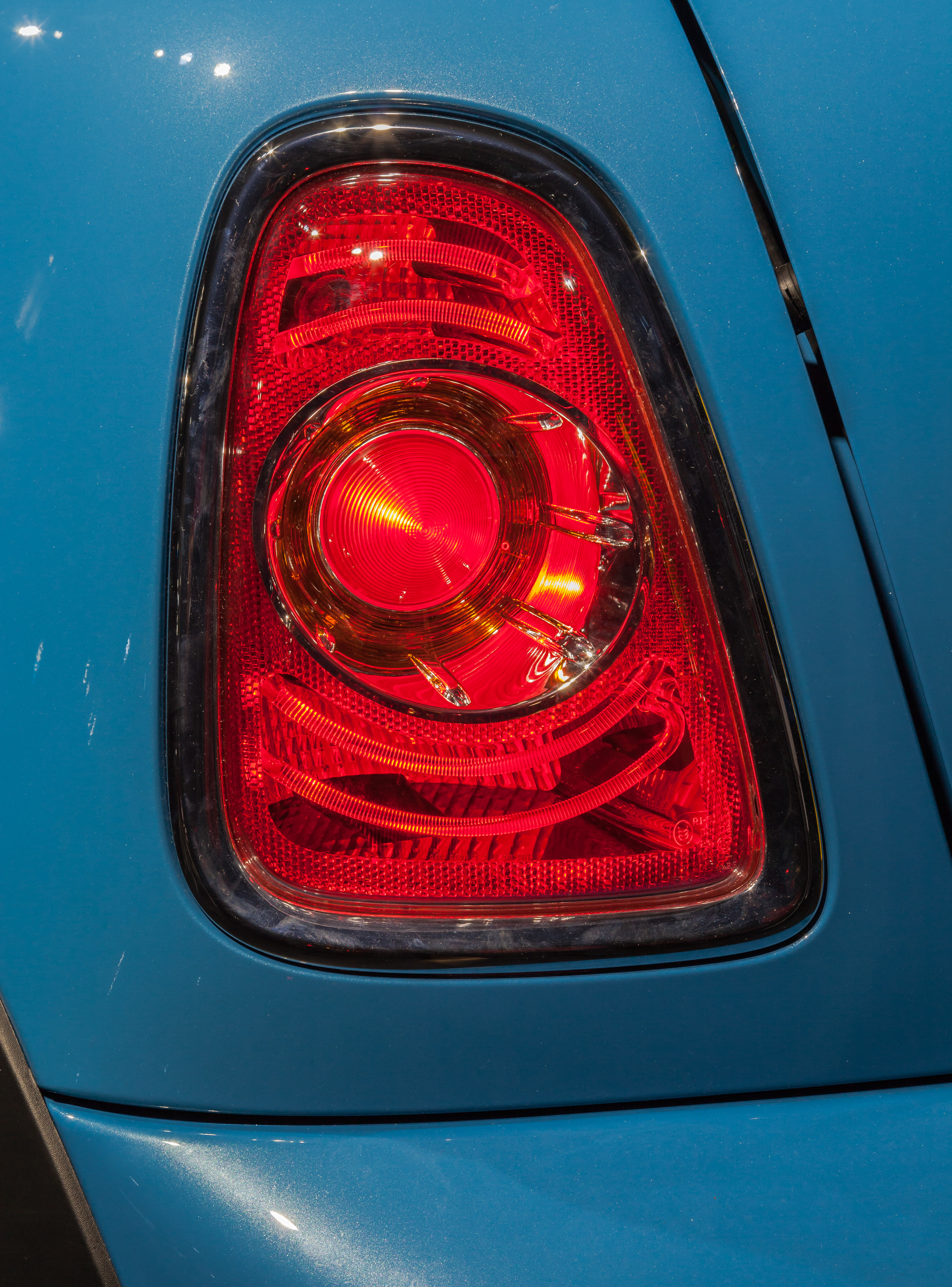 BMW Welt, Munich, Germany